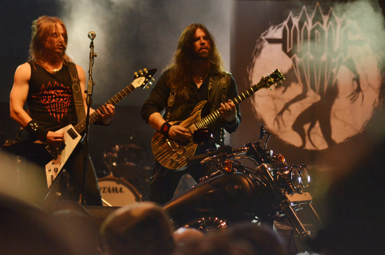 Wolf, the Swedish metal band performing in Harley Rock Riders Season 3, Bangalore, India on November 24, 2012. (Jim Ankan Deka Photography)